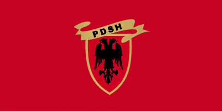 The flag of the Albanian Democratic Party (Partia Demokratike Shqiptare, PDSH).